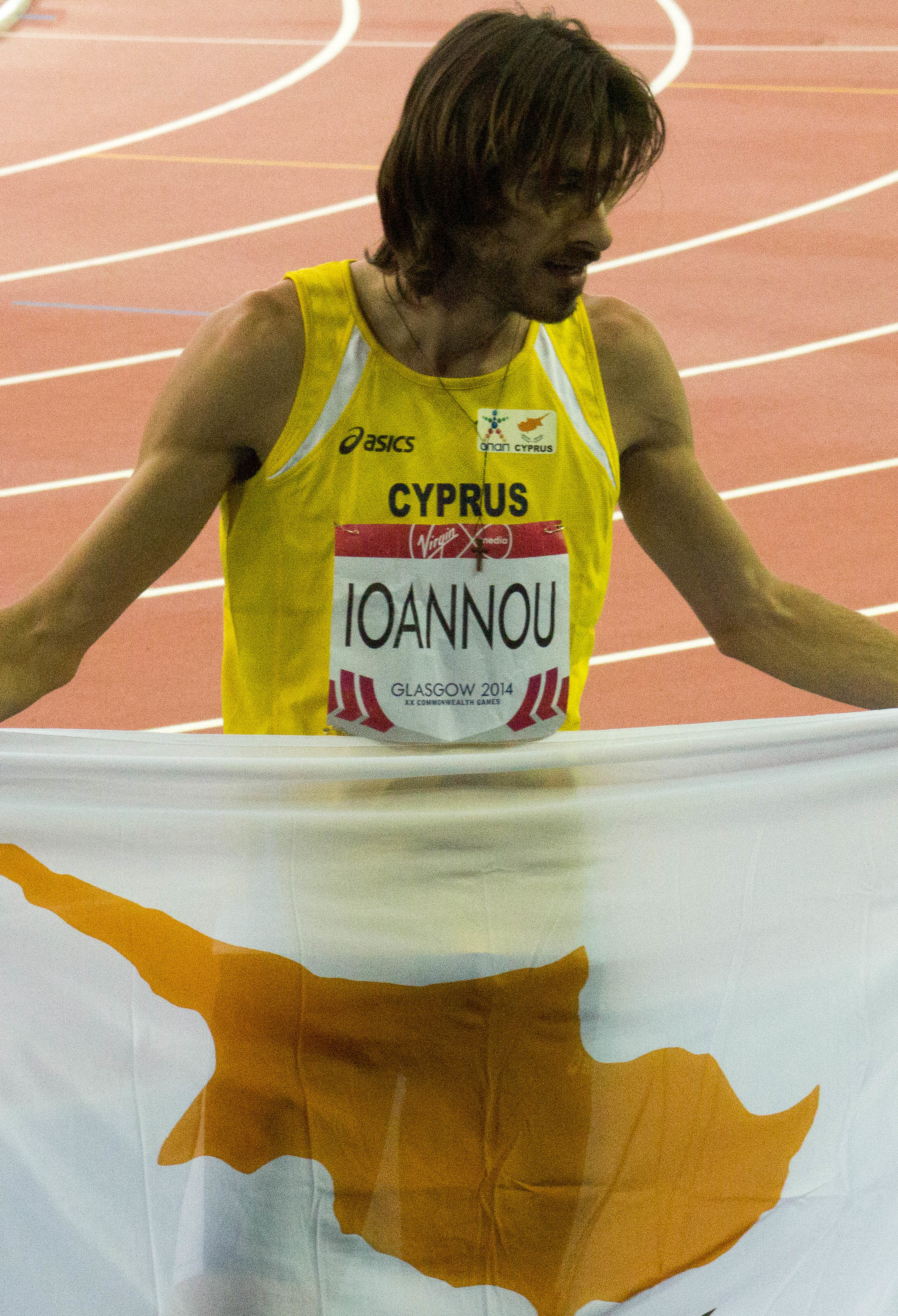 Commonwealth Games 2014 - Athletics Day 4 2014 Commonwealth Games Day 4: Athletics